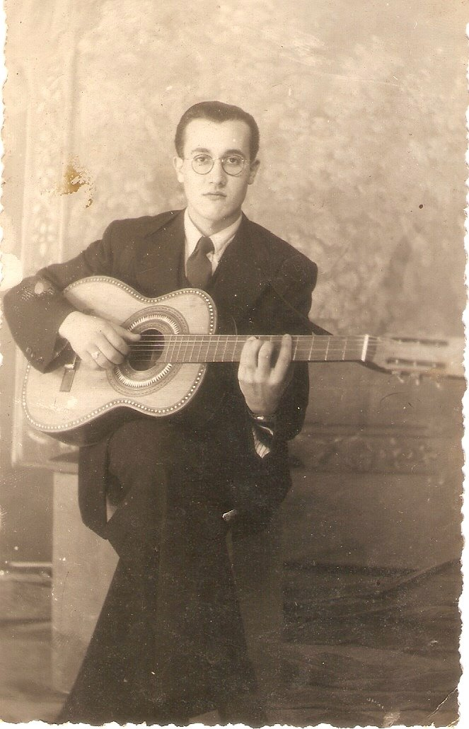 Reginald, son of E.B. Vella followed in his father's footsteps, becoming headmaster of schools and an author of books in his own right.